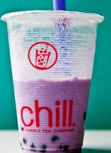 A picture of bubble tea taken at Chill Bubble Tea cafe in Illinois.